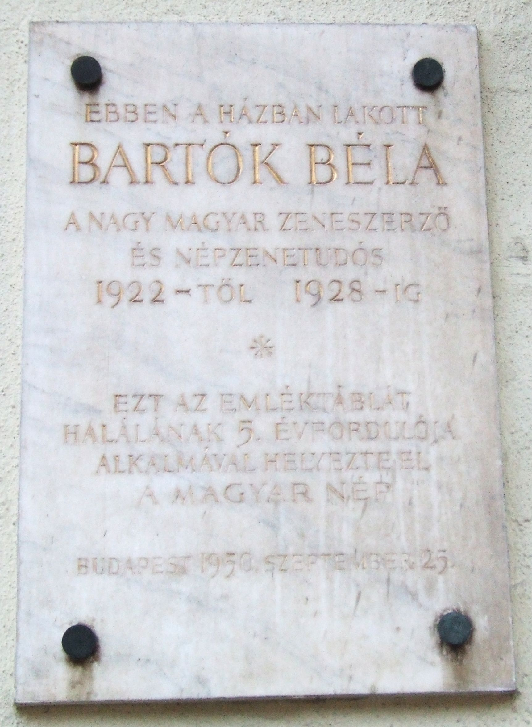 Béla Bartók commemorative plaque in Budapest District I, Szilágyi Dezső Square No 4